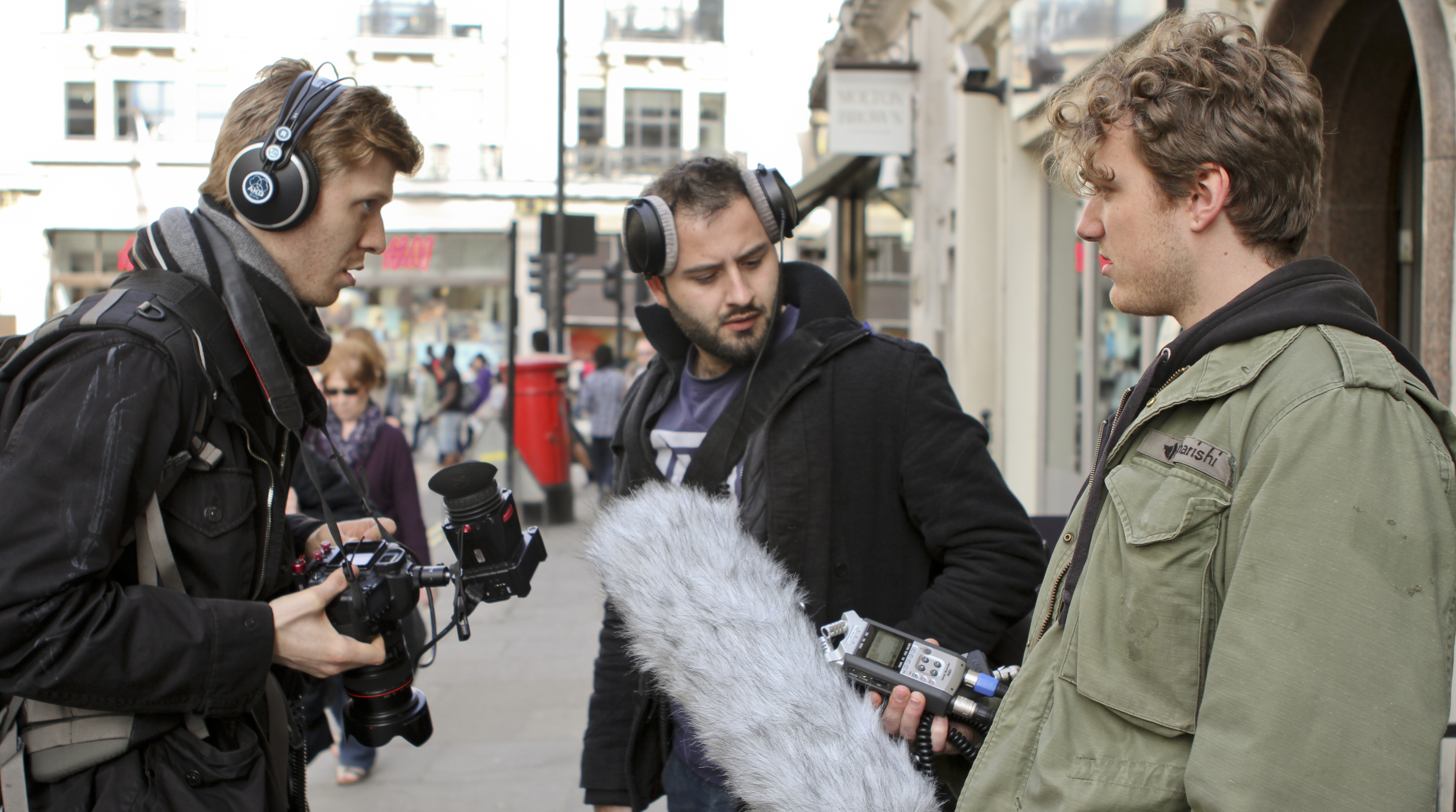 This picture was taken by one of our staff and is owned by my company Films United.